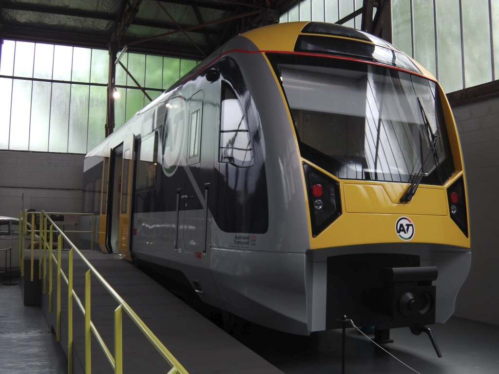 Mockup of Auckland's new electric multiple units on display at MOTAT